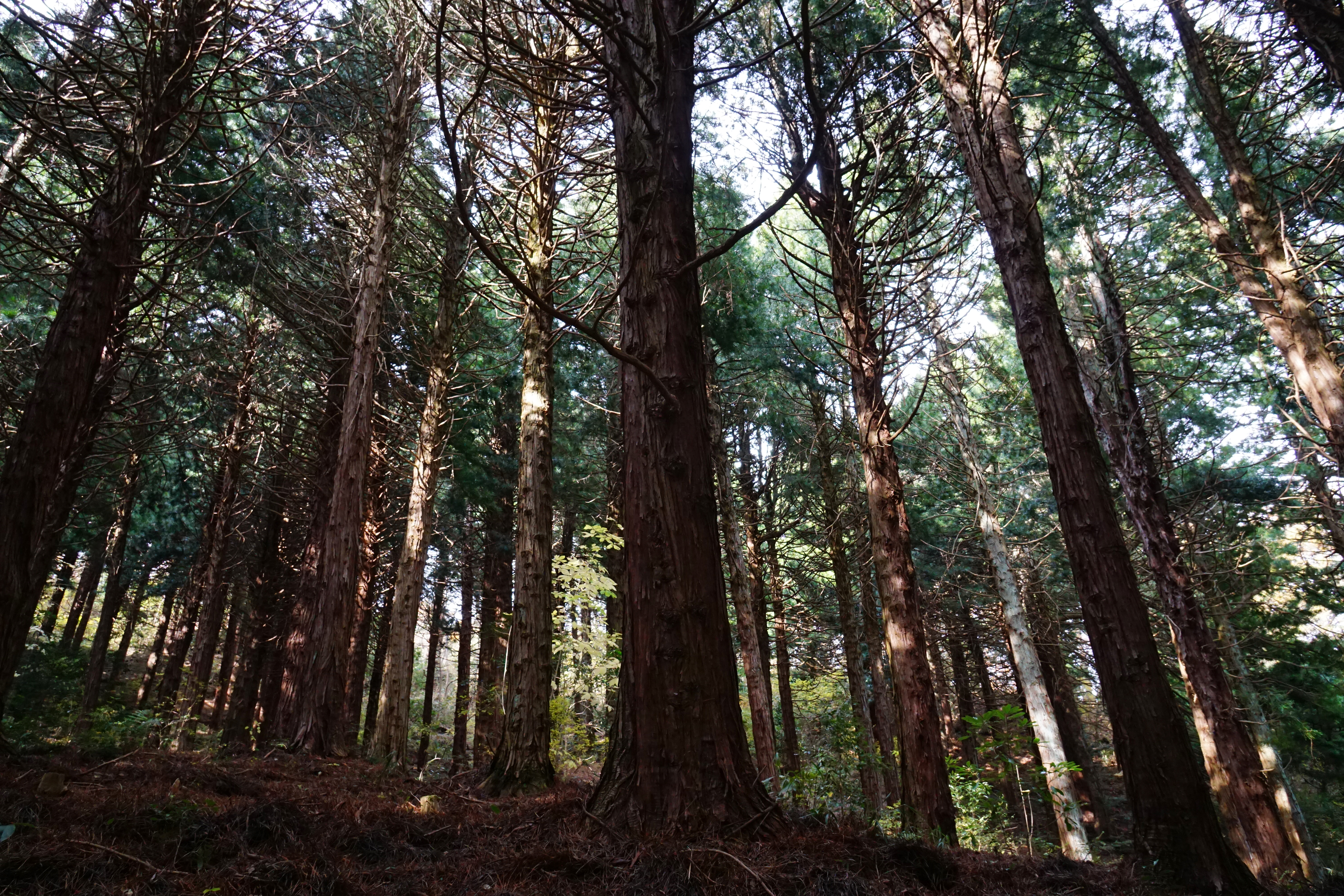 Kobe Municipal Arboretum in Kobe, Hyogo prefecture, Japan